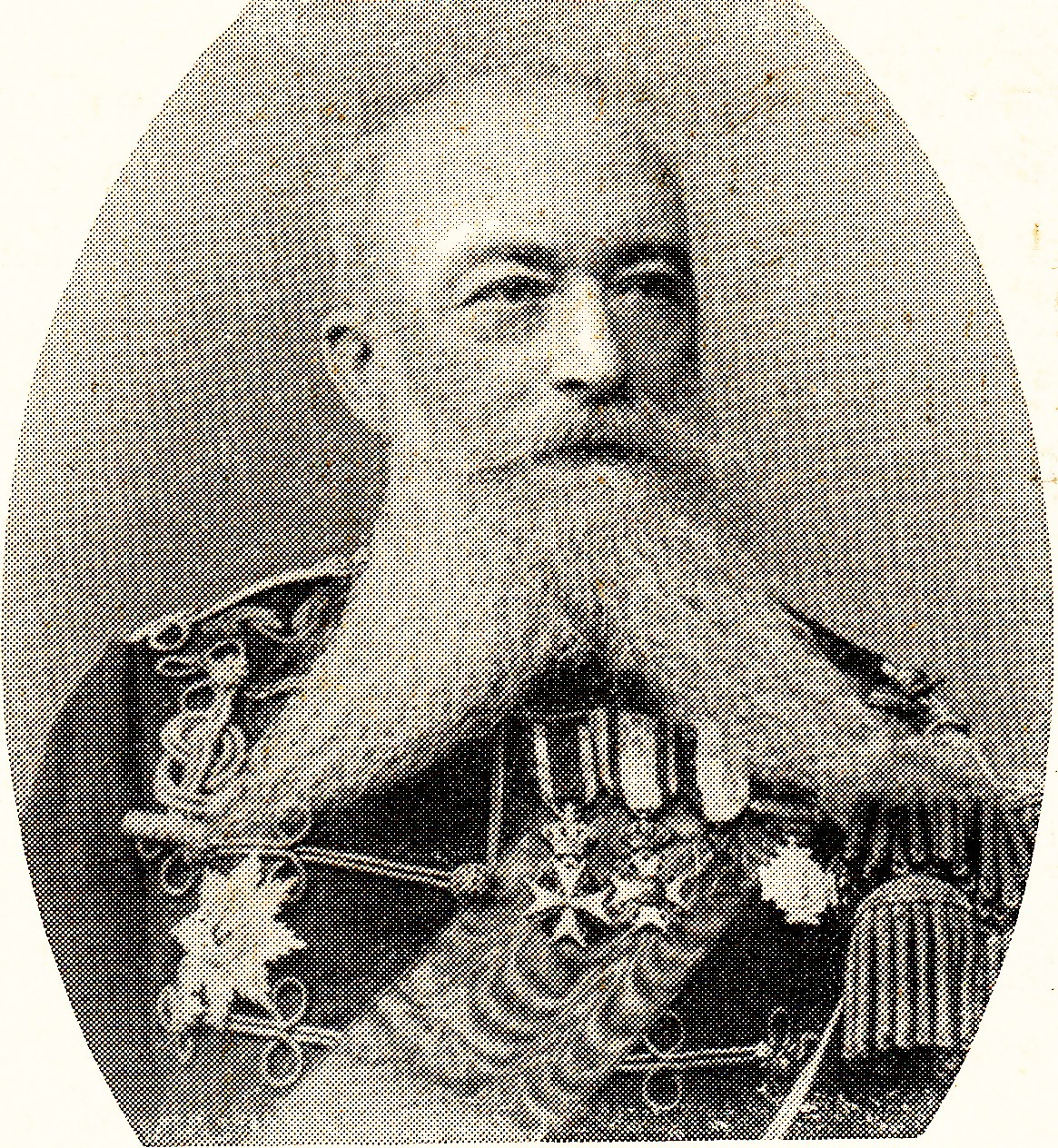 Luitenant generaal van Zijll de Jong